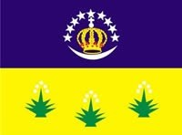 Flag of the Brazilian Community "Conceição do Coité"